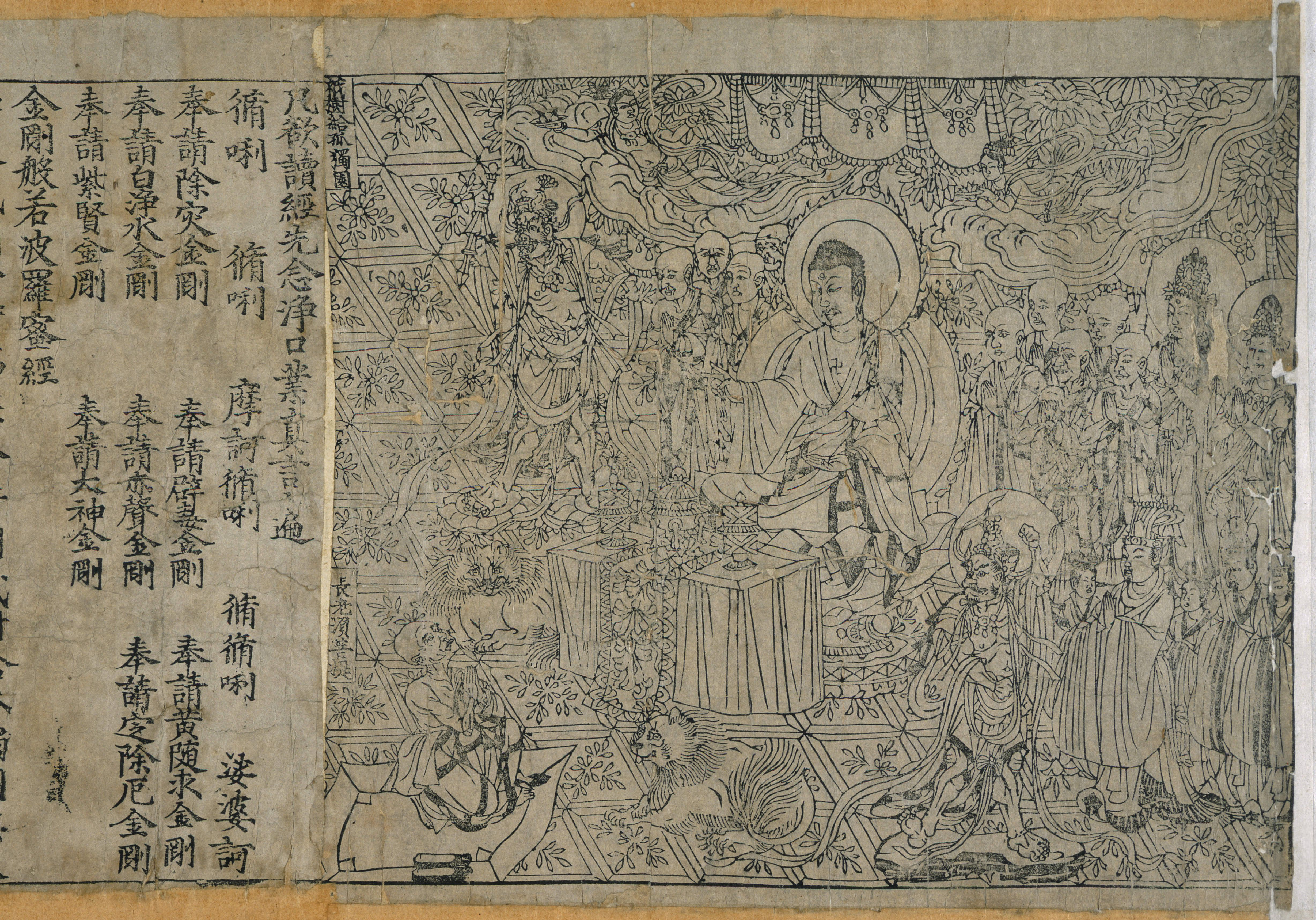 Frontispiece, Diamond Sutra from Cave 17, Dunhuang, ink on paper. A page from the Diamond Sutra, printed in the 9th year of Xiantong Era of the Tang Dynasty, i.e. 868 CE. Currently located in the British Library, London. According to the British Library, it is “the earliest complete survival of a dated printed book”. British Library Or.8210/P.2